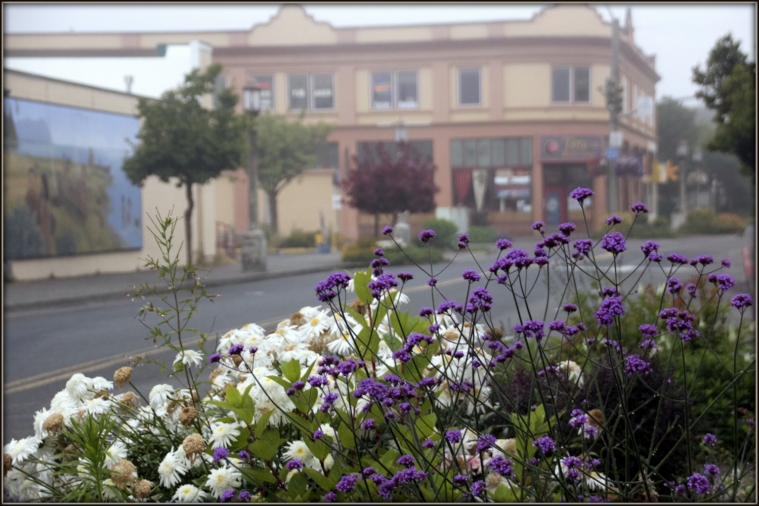 Picture of Broadway and Halladay in Seaside, OR. Location of Native American History mural.